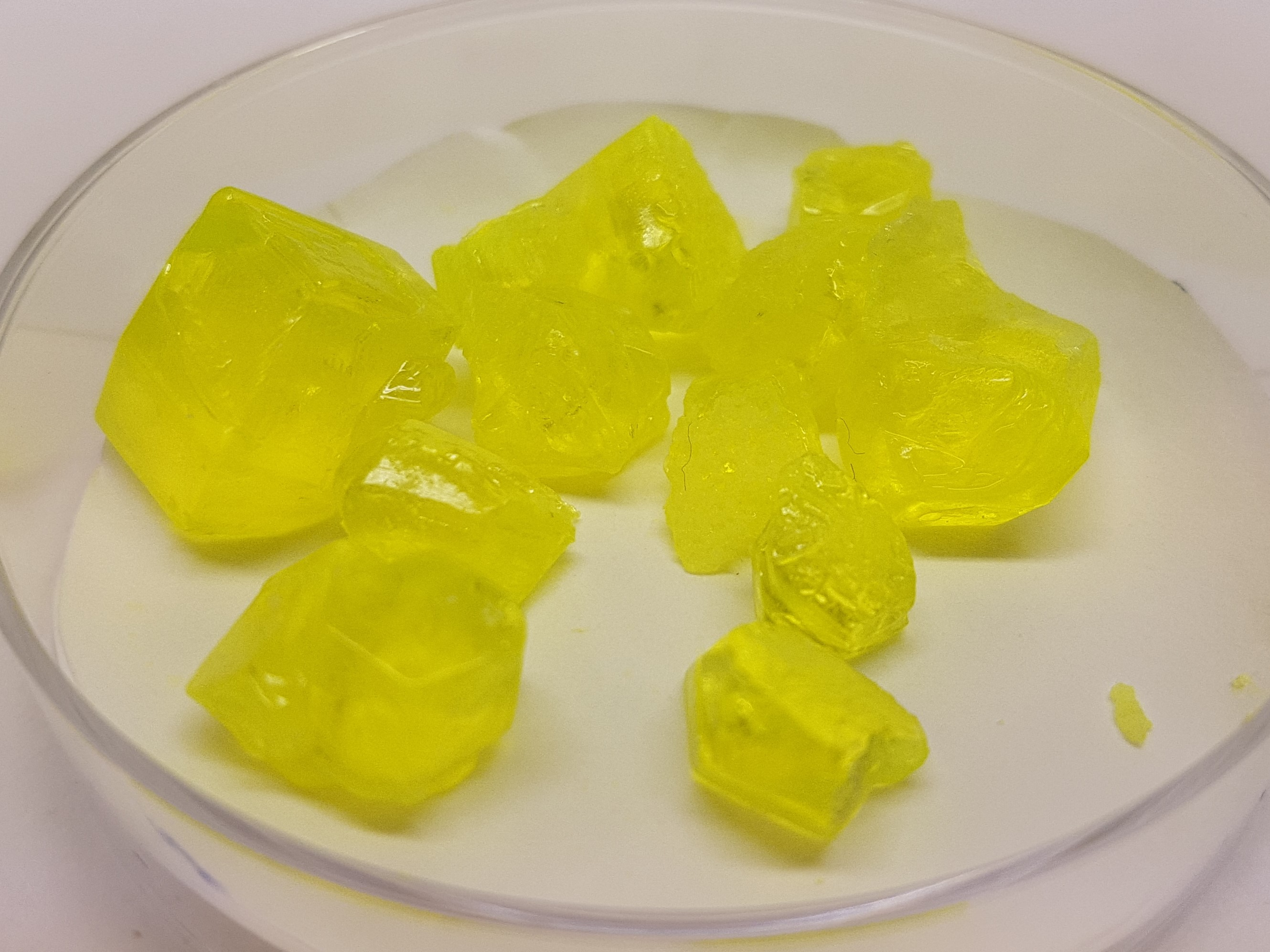 Crystalized solid uranyl nitrate